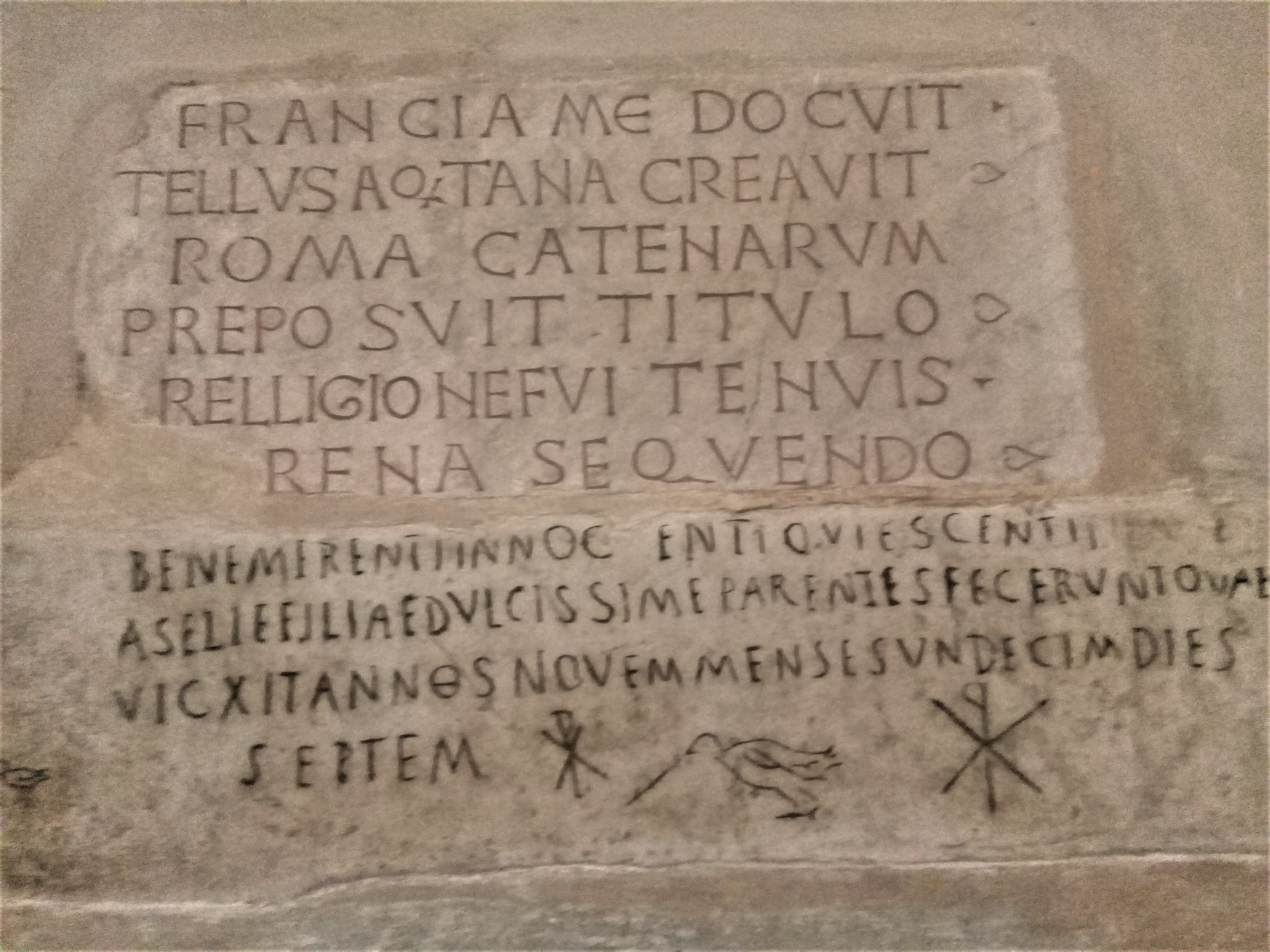 Carving in Rome